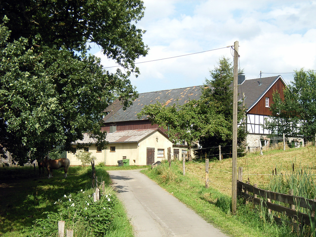 view of Recklinghausen, district of Gummersbach, North Rhine-Westphalia, Germany